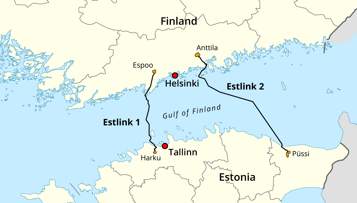 The courses of Estlink and proposed Estlink2 HVDC cables. Equirectangular projection, N/S stretching 180 %.